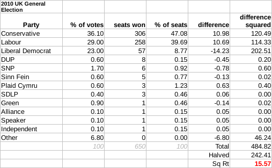 Gallagher Index, 2010 UK General Election